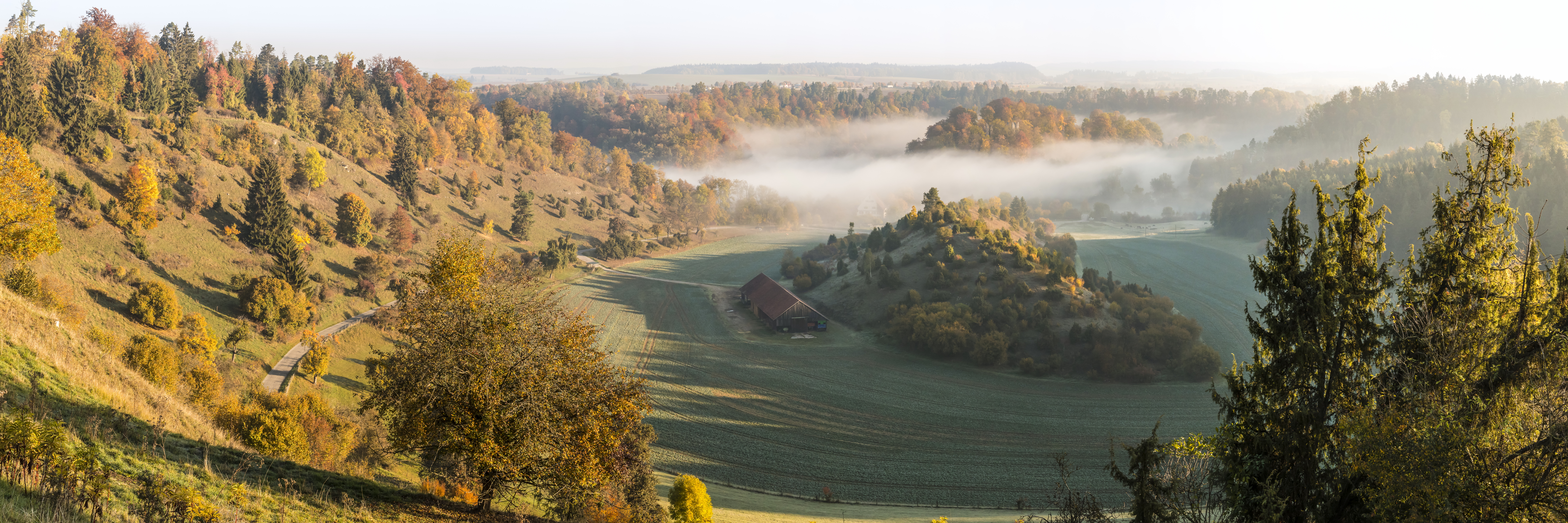 Nature reserve Neckarburg (WDPA-ID: 164768) near Rottweil. The meandering river Neckar formed two oxbow lakes at this site. The former lakes are now used as grassland. Two relict hills (Umlaufberge in German, no english translation found) are left, one of them once had a castle on it. The fog in the background shows where the river bed is now.